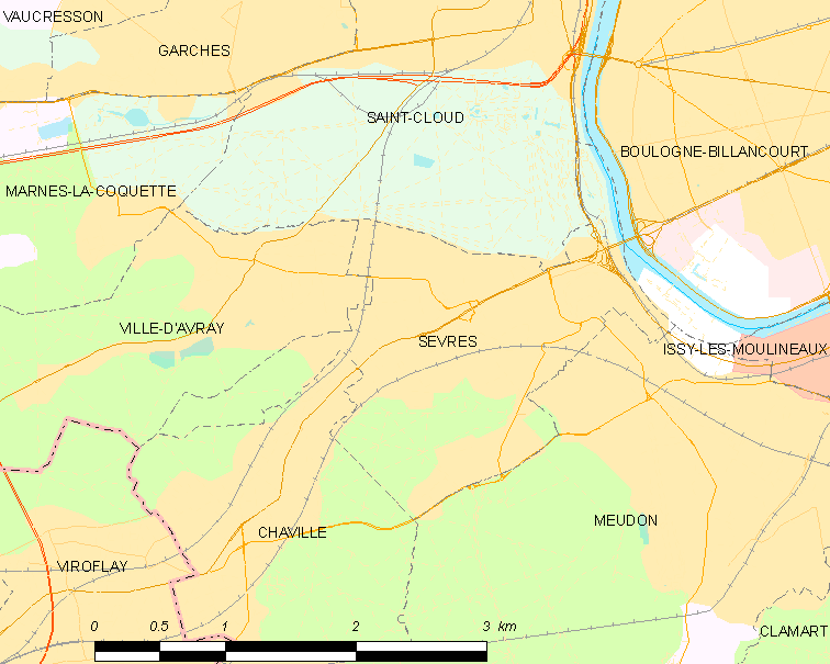 Map of French municipality Sèvres